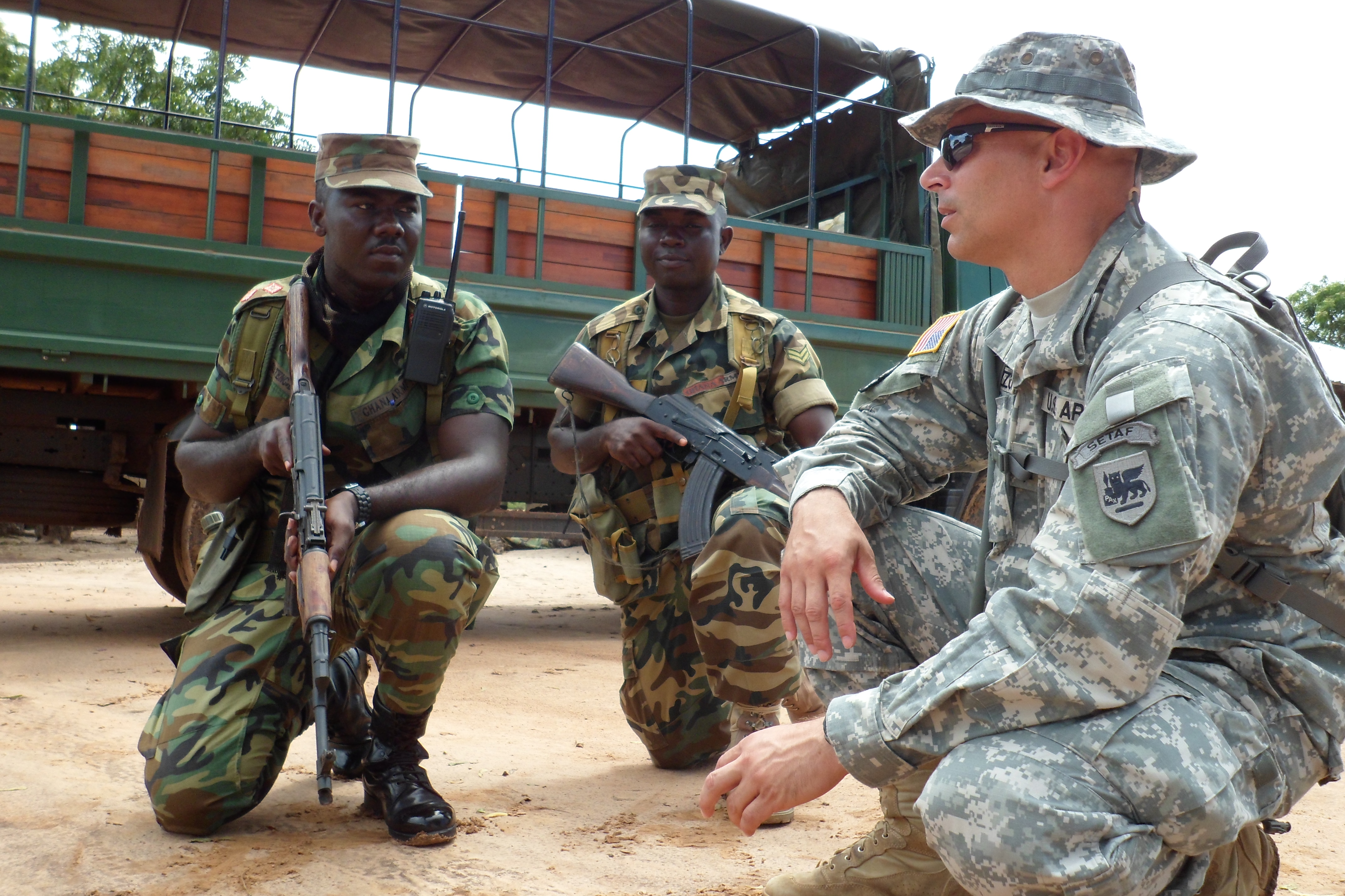 U.S. Army Africa 1st Lt. Salvatore Buzzurro, Africa Contingency Operations Training & Assistance program military mentor, gives a Sierra Leone Armed Forces Soldiers advice on movement techniques. The SL Army has been training with the ACOTA program for two years, and this is the fifth company prepping for their peacekeeping mission in another country. Photo by U.S. Army Africa. To learn more about U.S. Army Africa visit our official website at Official Twitter Feed: Official Vimeo video channel: Join the U.S. Army Africa conversation on Facebook